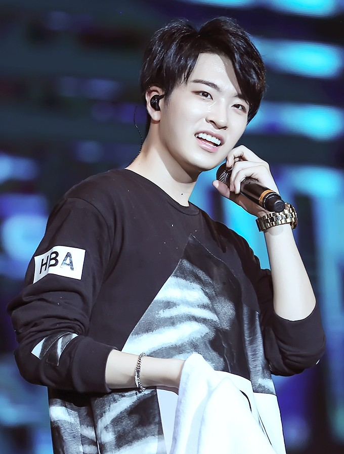 160508 FLY IN SHANGHAI Choi Youngjae